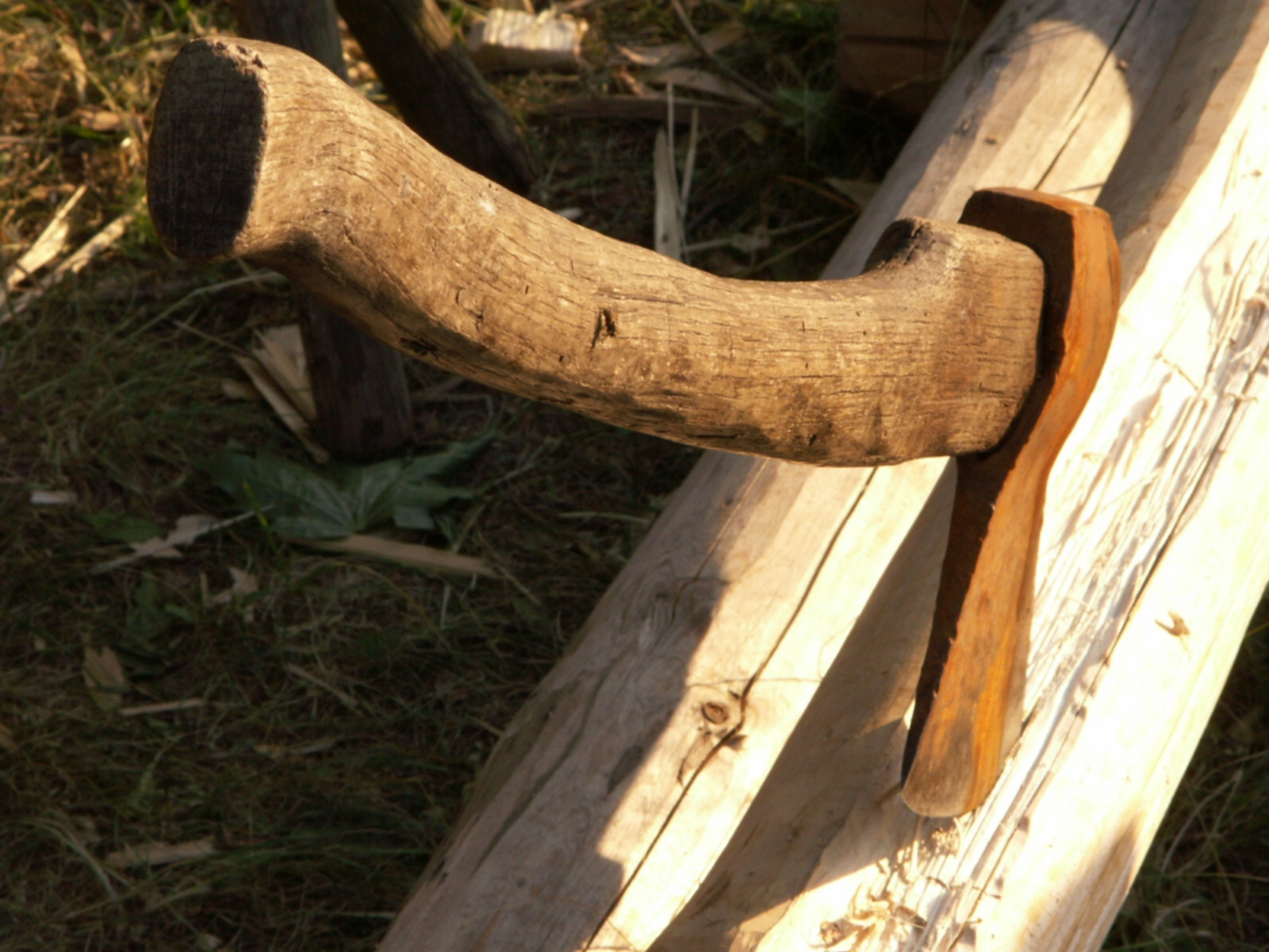 Axe for cutting, handicraft; oak handle